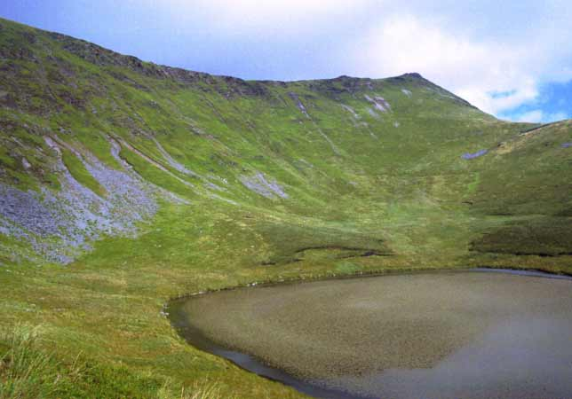 The south side of the Berwyn ridge with Llyn Lluncaws lake in the foreground. The summit is Cadair Berwyn. Taken by Stemonitis on 23rd of July 2001.